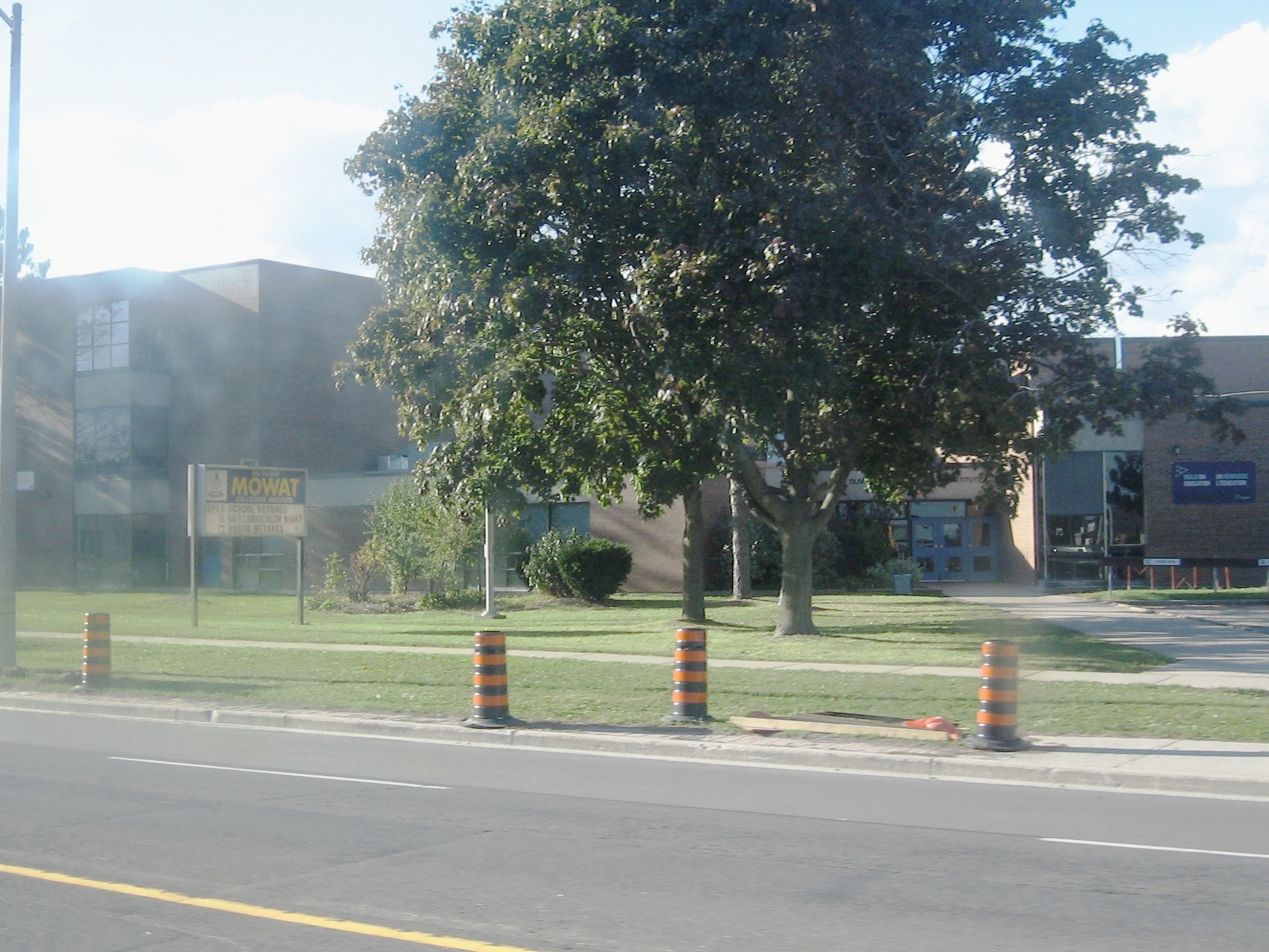 Sir Oliver Mowat Collegiate Institute is a TDSB school located in Scarborough, Ontario opened in September 1970.